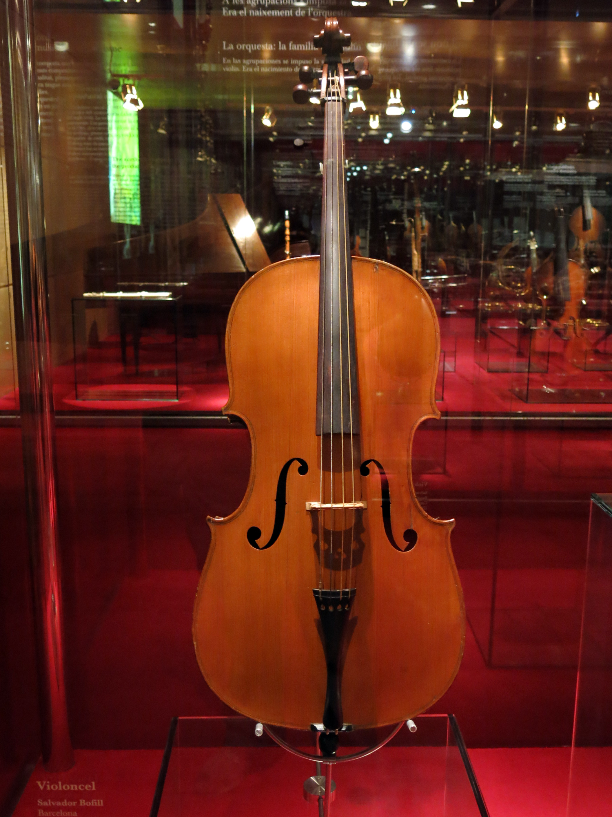 Violoncello, Salvador Bofill, Barcelona, 1744, Museu de la Música de Barcelona